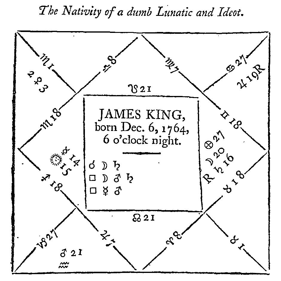 The caption reads: "The Nativity of a dumb Lunatic and Ideot." The horoscope of a "Lunatic" according to an astrologer who describes how the positions of the planets Saturn and Mars with respect to the Moon are the cause of "diseases of the mind." See lunacy. The text that accompanies the horoscope reads: "This is the nativity of a person's son now living in Kingsland-Road; he is dumb, and when he is not lunatic, he is mere ideot; but sometimes he is outrageous and mischievous to a great degree, and runs away from his father's house; at other times; when not affected by the Moon, he is quiet and foolish."